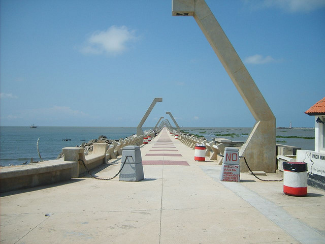 Coatzacoalcos, Veracruz, Mexico. Pier into bay; mouth of Coatzacoalcos River seen at right.